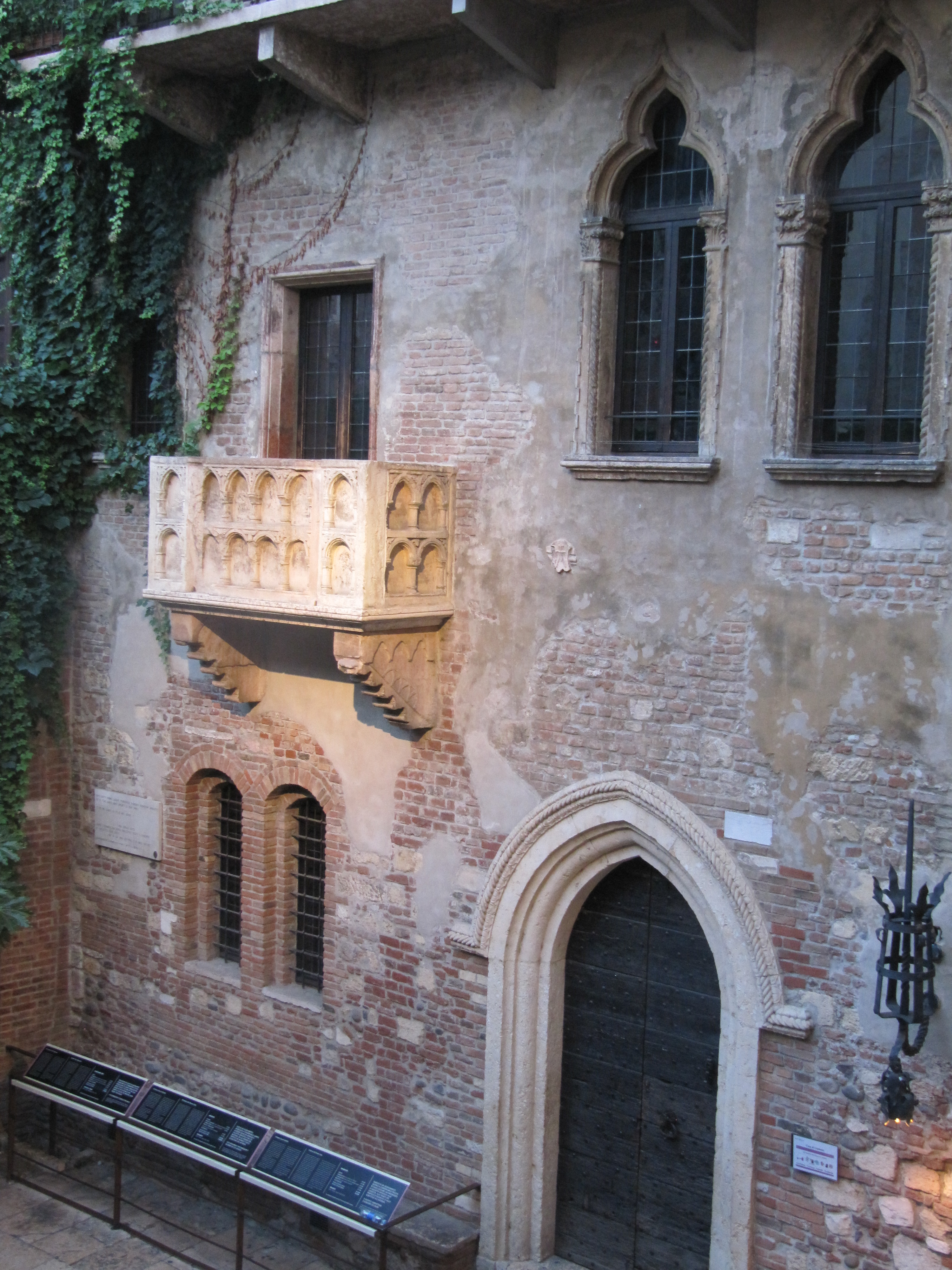 Juliet's balcony, Verona